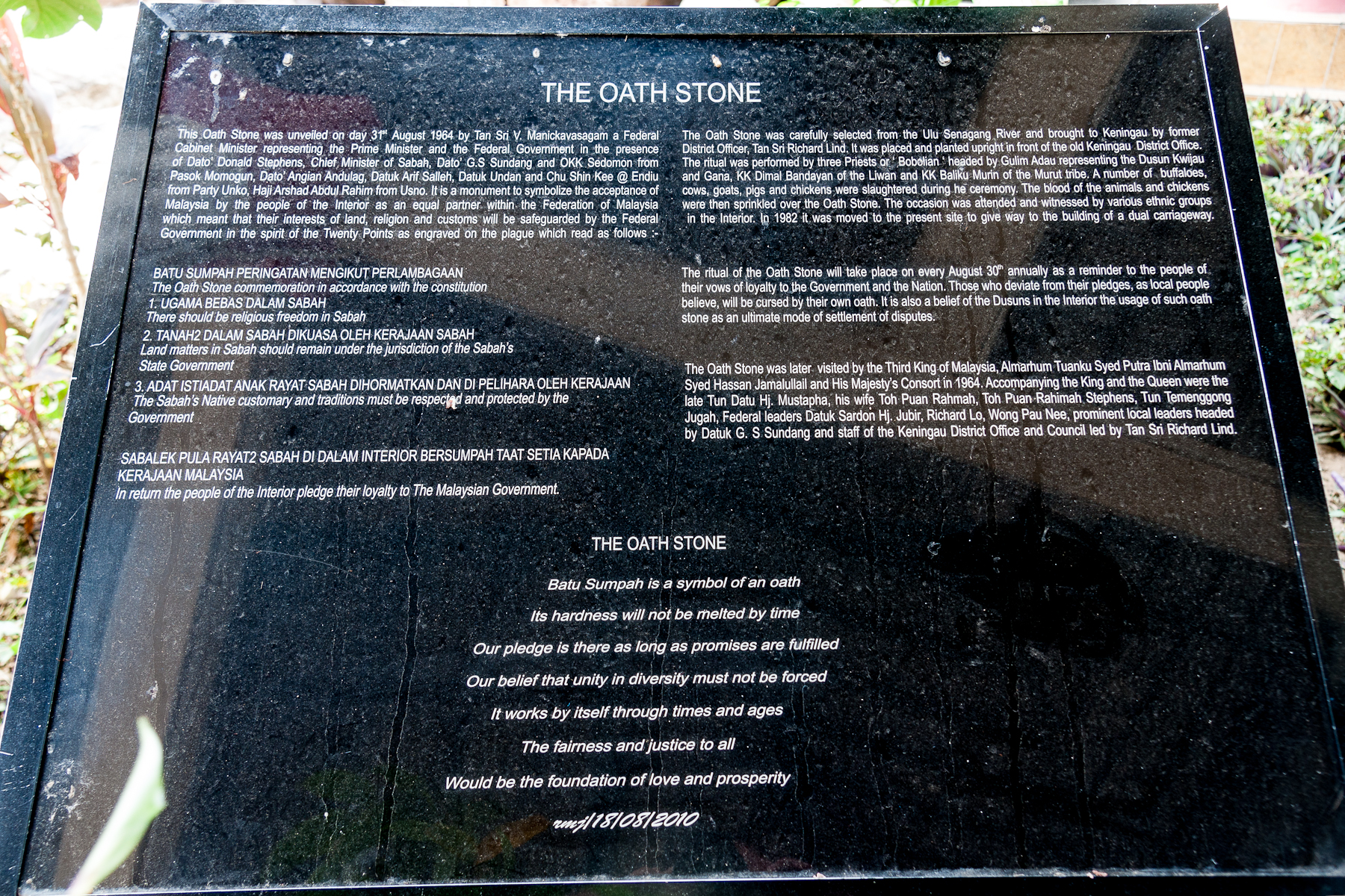 Keningau, Sabah: Batu Sumpah Keningau (Keningau Oath Stone), memorial plaque